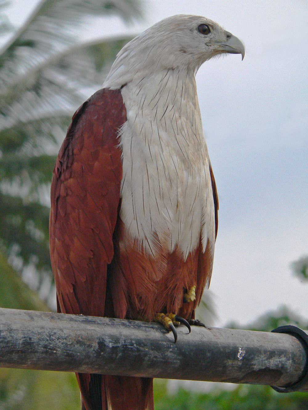 A Brahminy Kite near Cherai Beach, Kochi, Kerala, India.